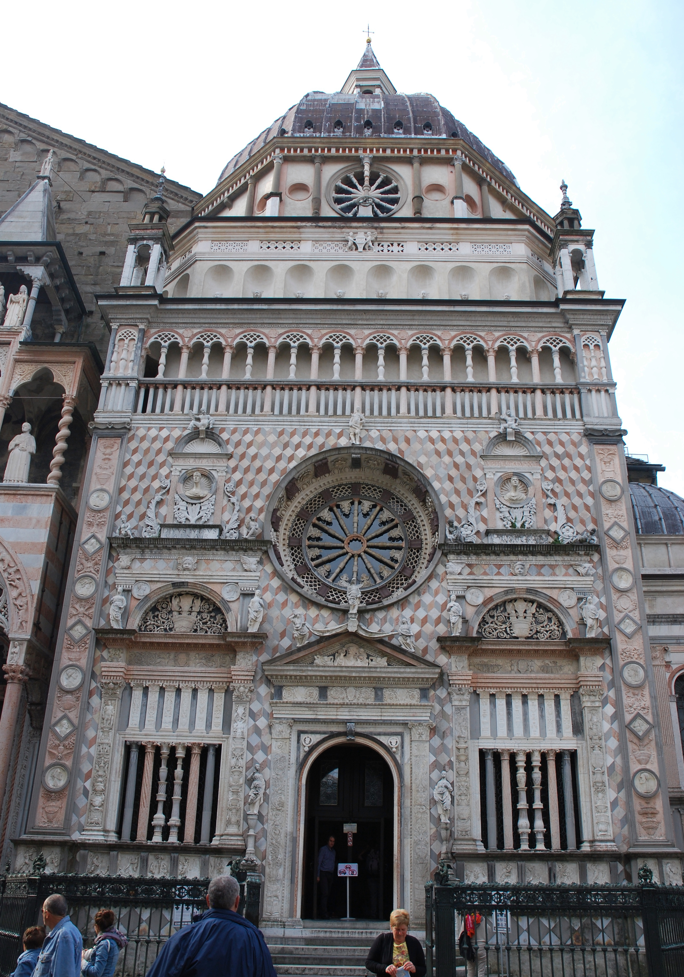 Colleoni Chapel in Bergamo.